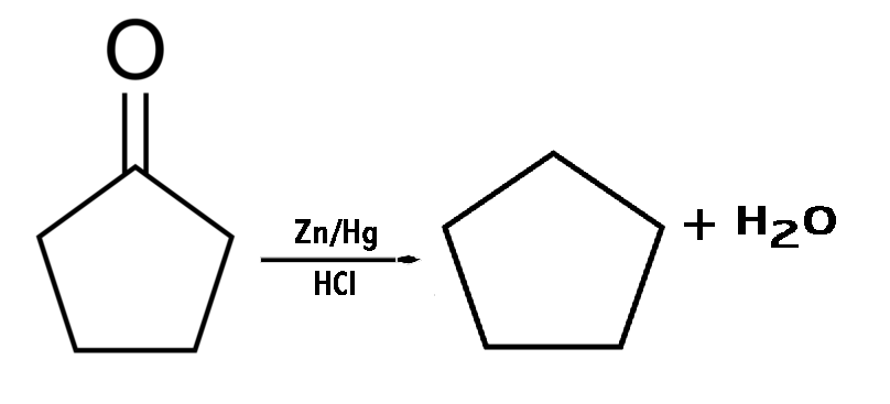 Cyclopentane synthesis from cyclopentanone